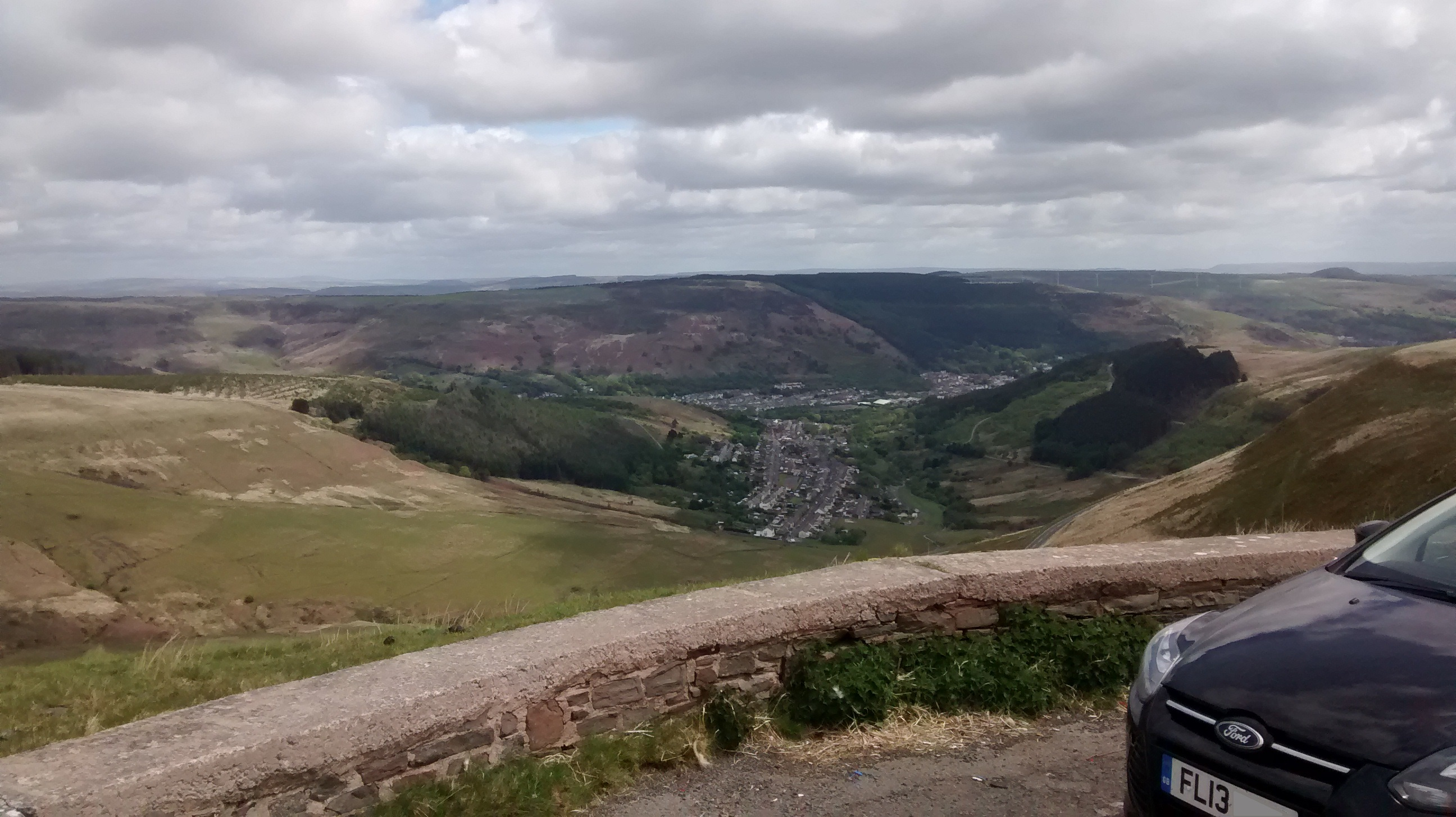 View of Cwmparc and Treorchy from the A4107 road, Rhondda Cynon Taf